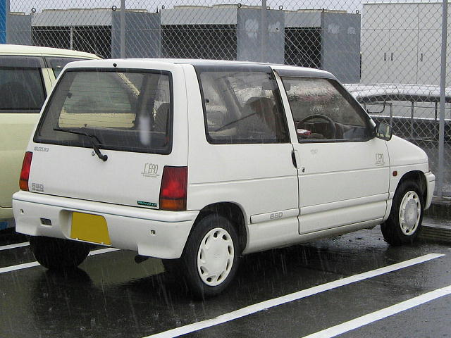 Suzuki "Alto" (3rd generation)